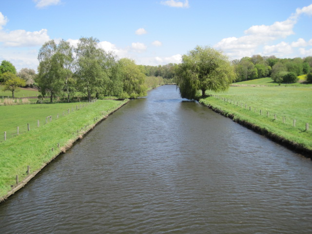 River Trave seen from the road bridge in Hamberge. View eastwards, down the river.